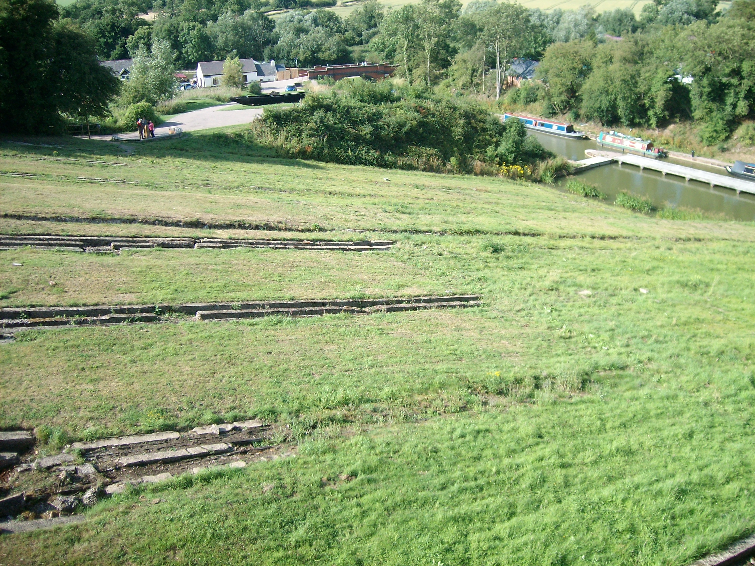 Foxton Inclined Plane from viewing area. One side is for taking the boats up; the other, down